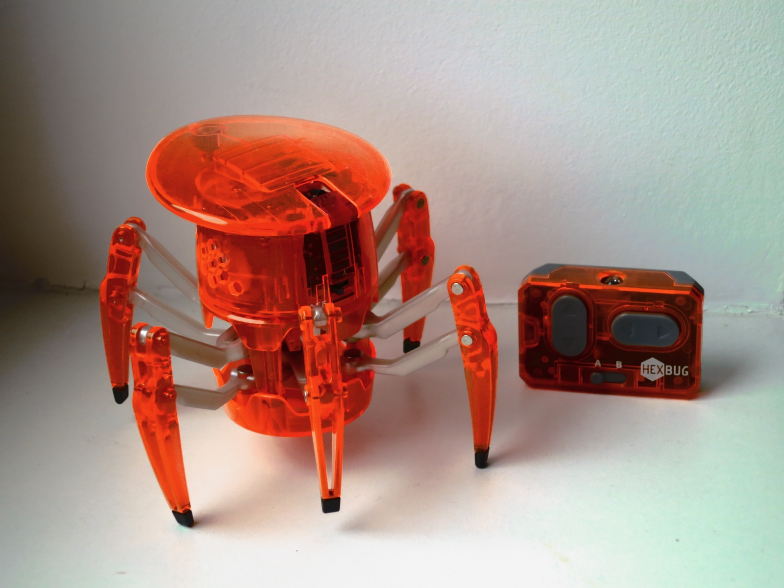 Hexbug Spider, as available in December of 2010.